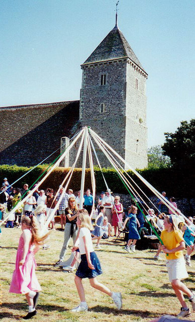 Maypole dancing at the Village Fair on the Egg (village green) at Bishopstone, East Sussex, with the tower of St Andrew's parish church in the background